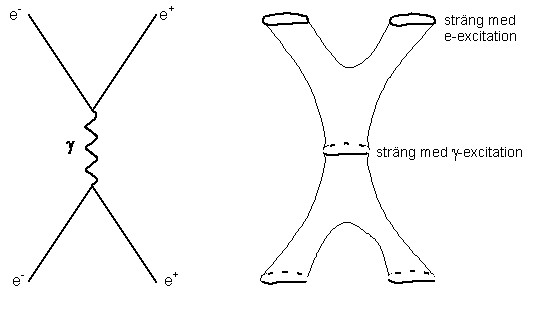 Interaction between particles compared to the interaction between strings